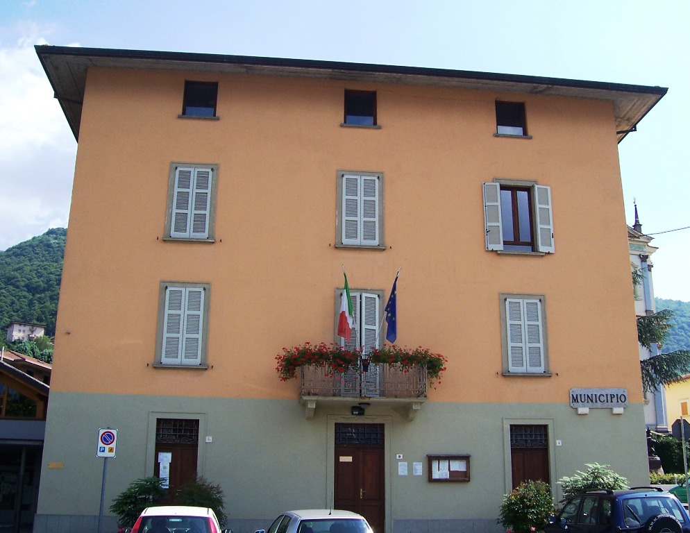 Town hall. Artogne, Val Camonica